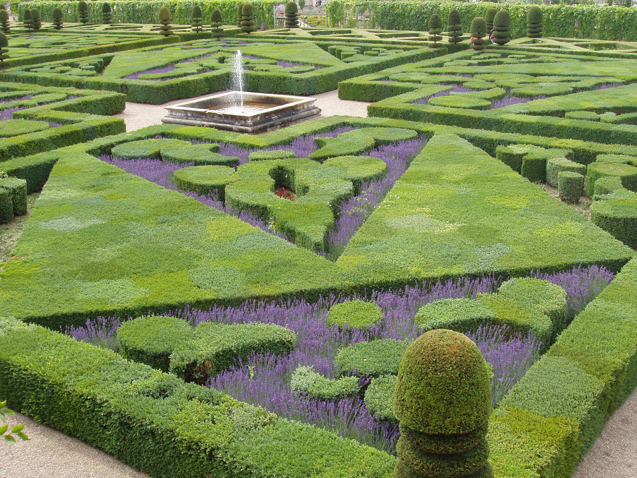 Garden in the Château de Villandry, Loire Valley, France. Photograph taken by me, summer 2004.